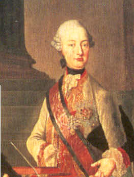 Portrait of Archduke Ferdinand of Austria-Este (1754-1806). Detail of a portrait of Empress Maria Theresa with her sons